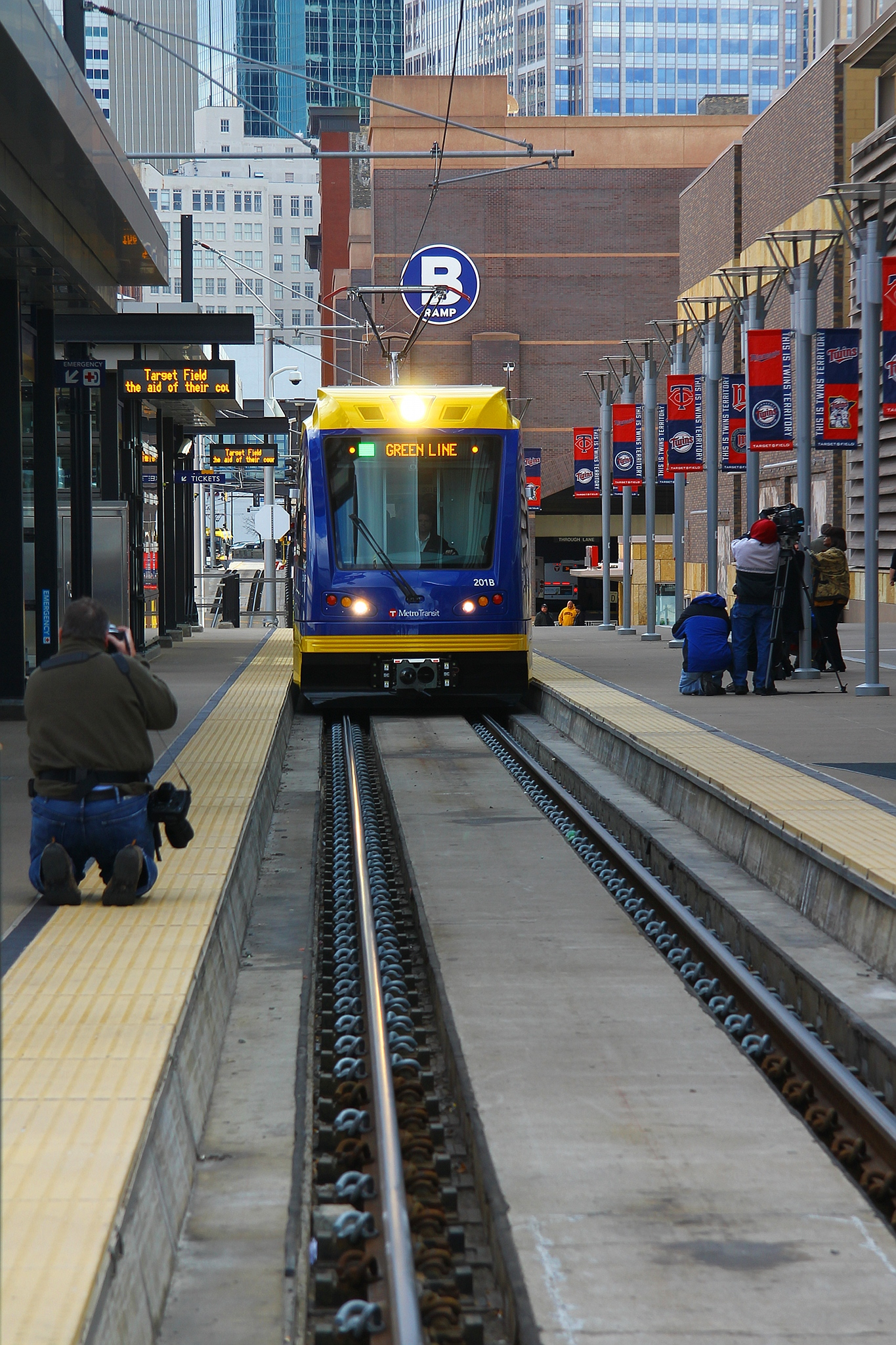 Metro Transit's first new Siemens S70, #201, arrives at an unveiling to the news media at Target Field station in Minneapolis on October 10, 2012. The vehicle had been delivered about a month earlier.